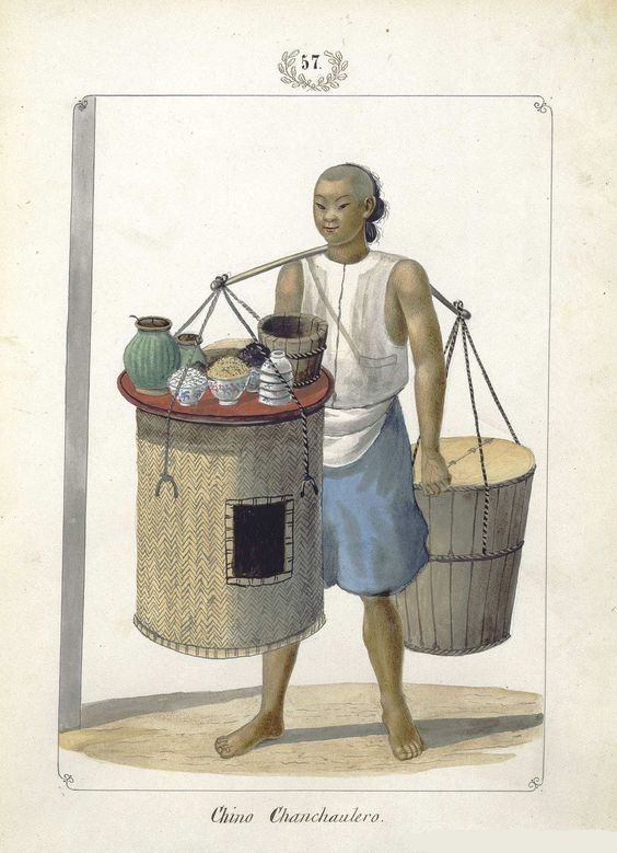 "Chino Chanchaulero" Tipos del País (19th Century Watercolor) by José Honorato Lozano